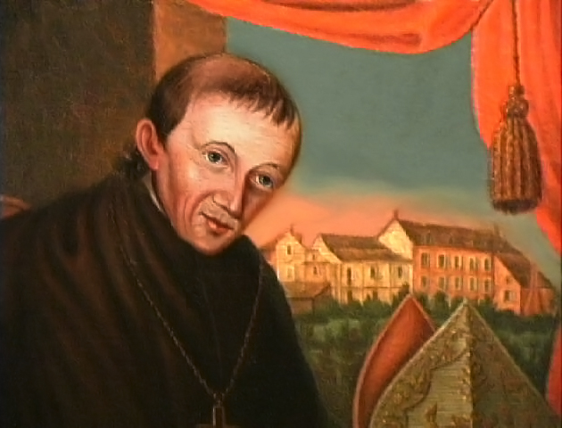 Archbishop Leonard Neale overseeing Georgetown College.